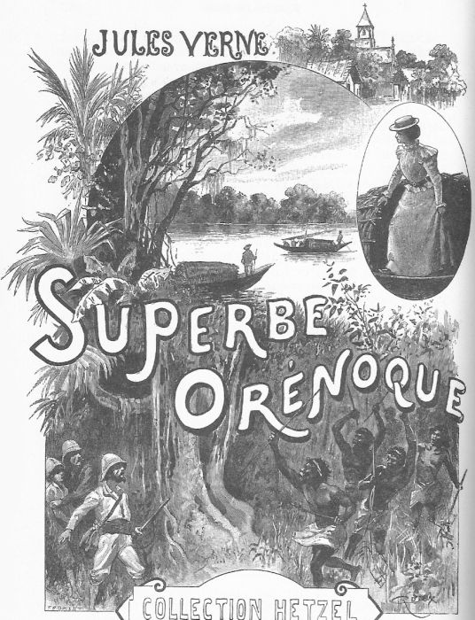 An illustration from the novel "The Mighty Orinoco" by Jules Verne drawn by George Roux.